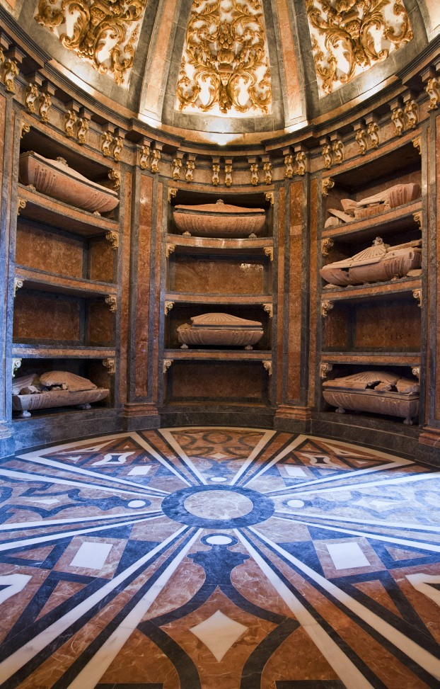 Crypt of the Dukes of Infantado in Saint Francis Convent, in Guadalajara, Spain.